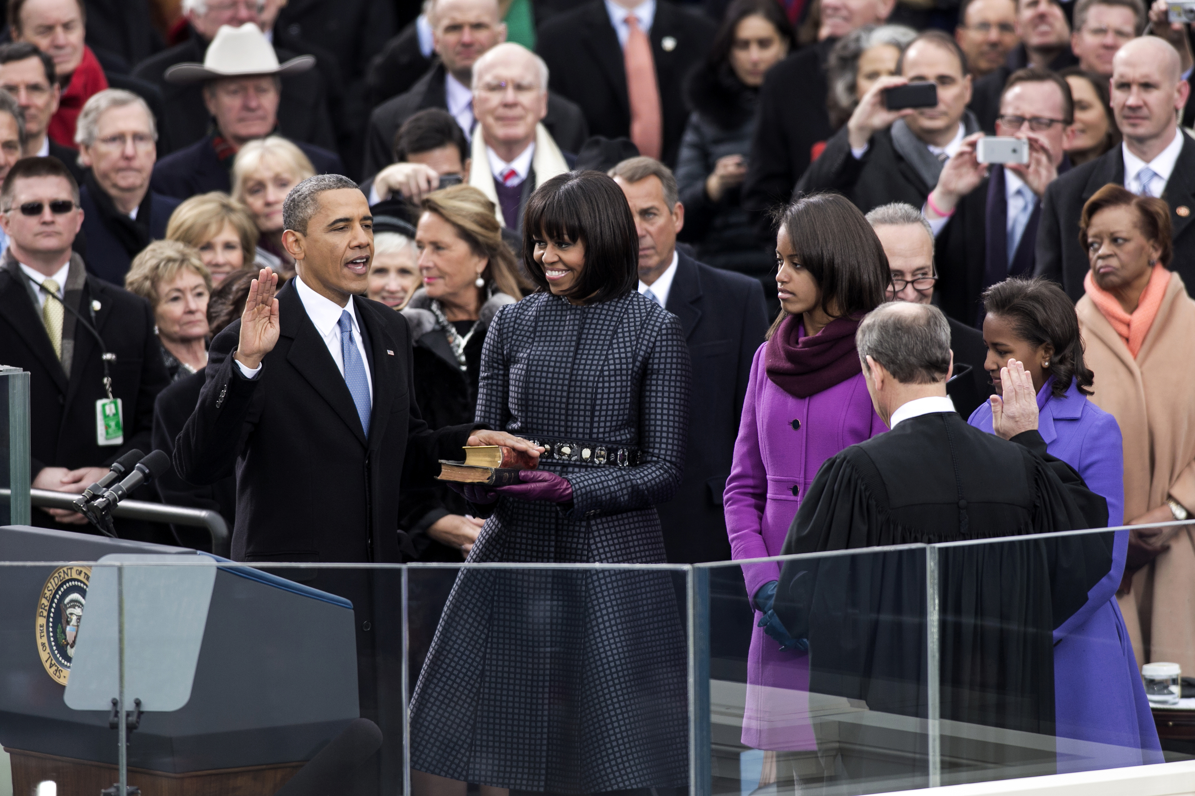 President Barack Obama takes the oath of office from Supreme Court Chief Justice John G. Roberts Jr., right, in a public ceremony at the U.S. Capitol before thousands of people in Washington, D.C., Jan. 21, 2013. Roberts administered the oath in an official ceremony at the White House, Jan., 20, 2013.